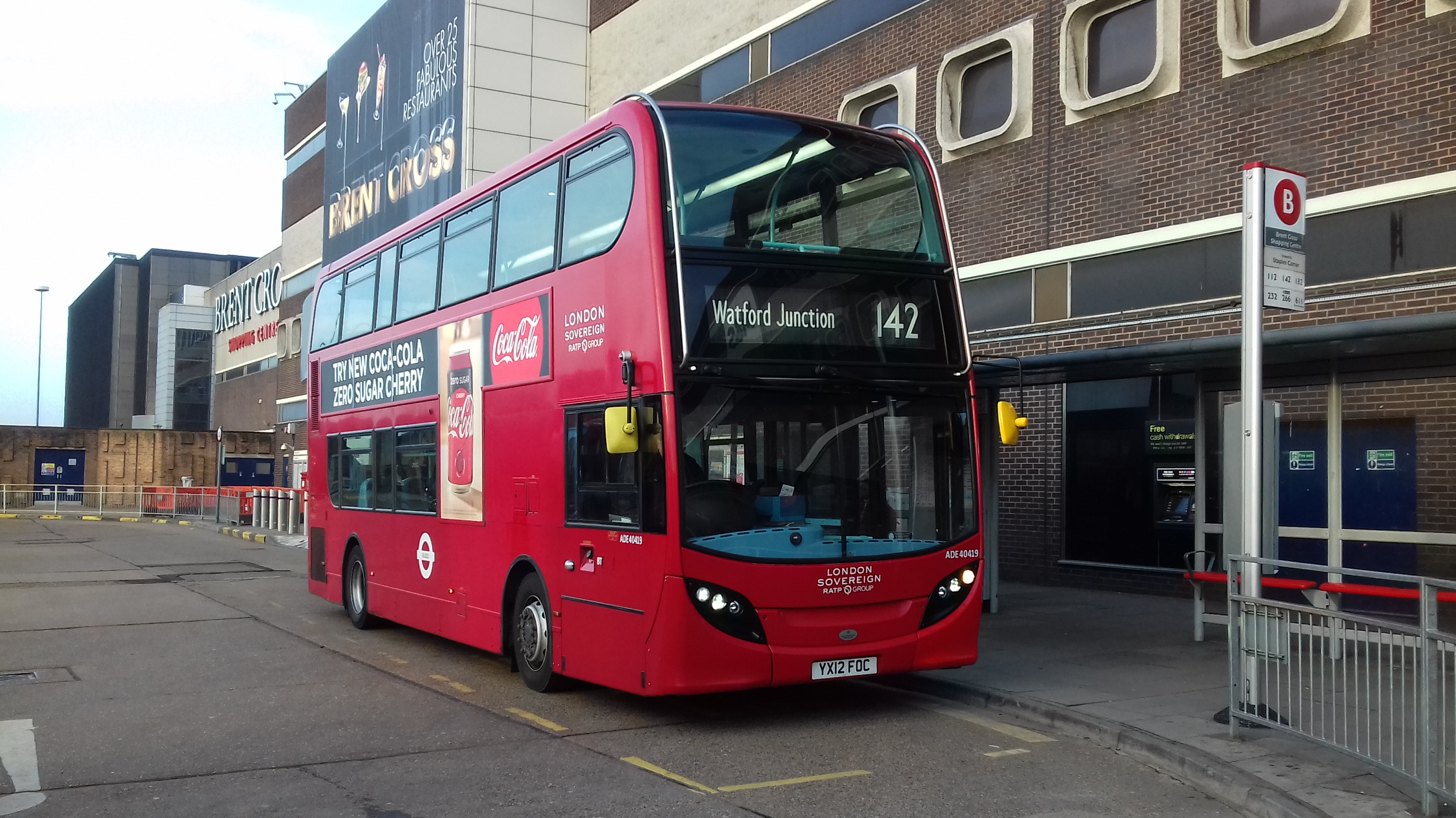 Alexander Dennis Enviro400 on route 142 at Brent Cross in January 2018